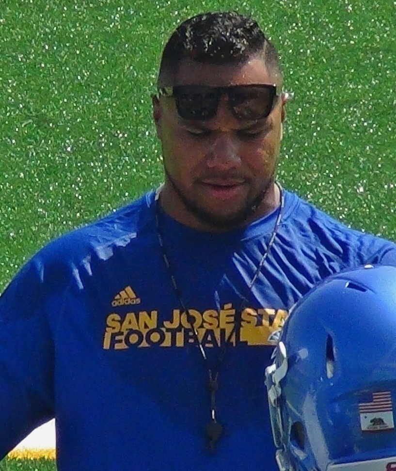 San Jose State football linebackers coach and former Oakland Raiders linebacker Bojay Filimoeatu, during 2017 fall camp at San Jose State.